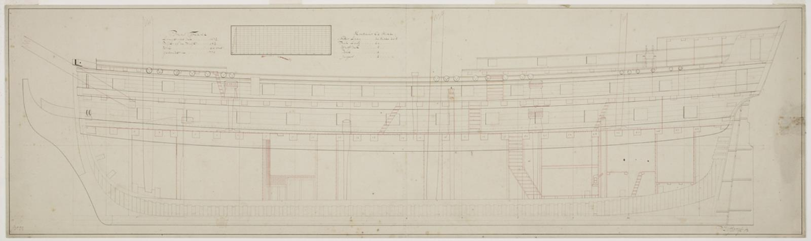 Plans for the Dutch ship of war "Prins Frederik", 1777.